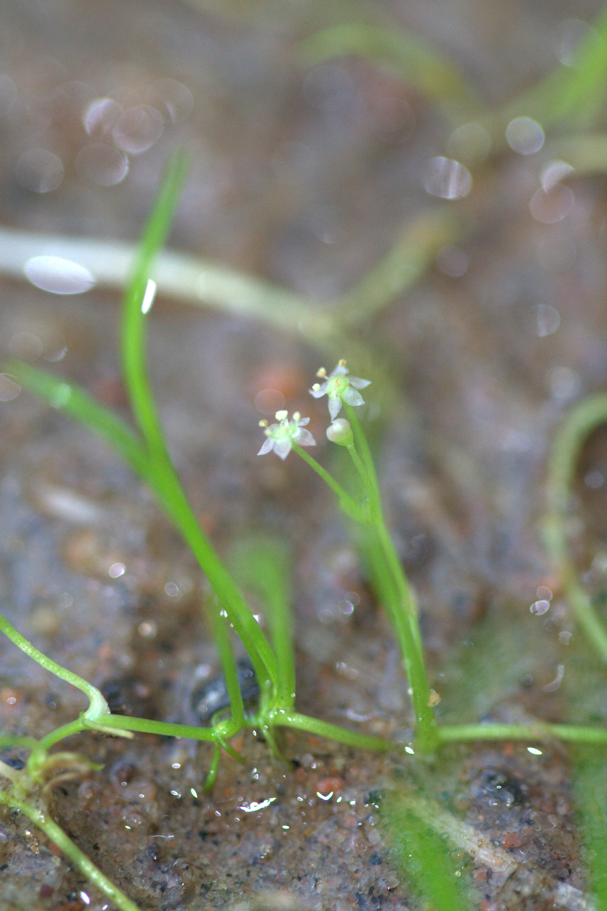 Flowers of Lilaeopsis brasiliensis grown indoor in a aquarium without water (just covering the sand).